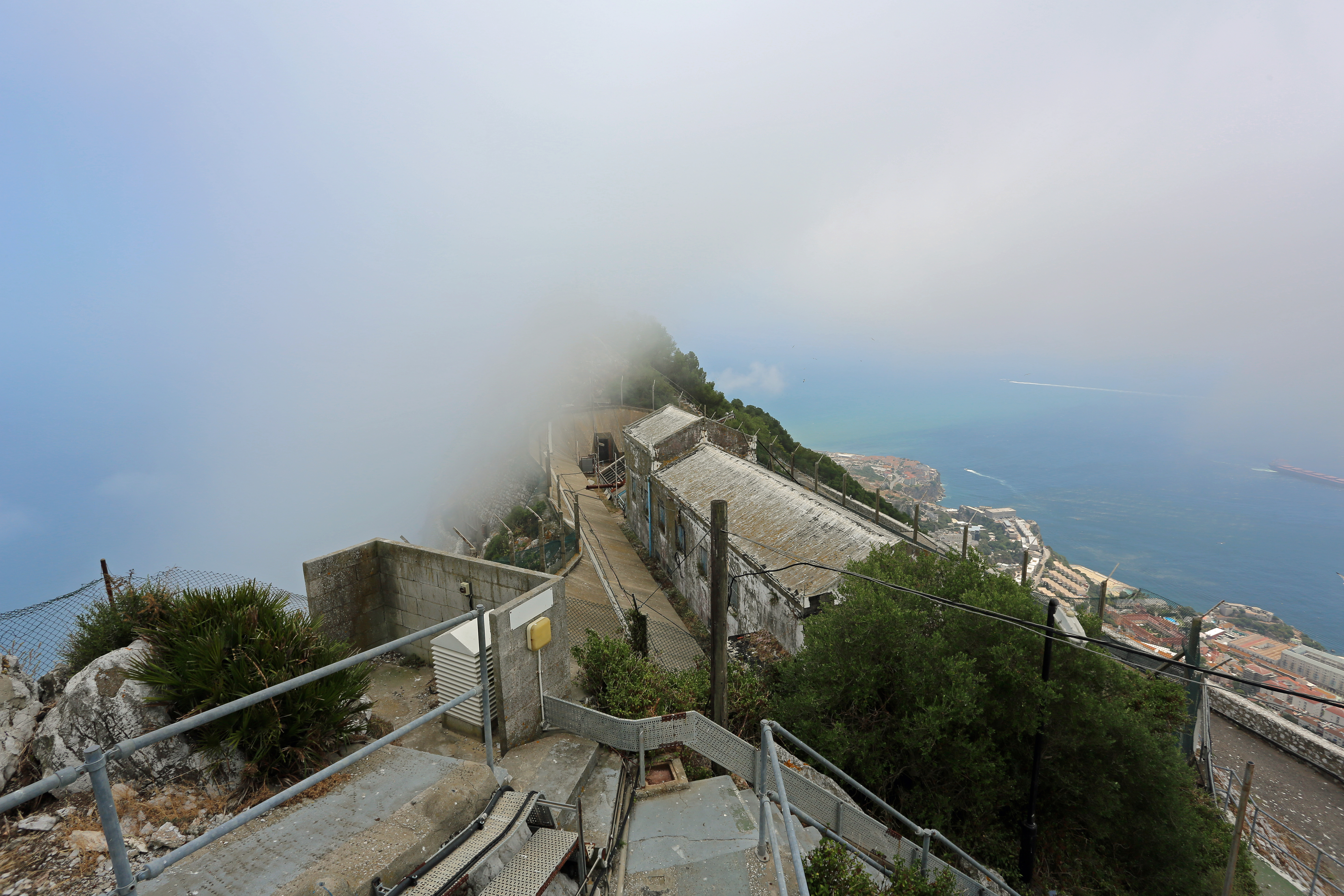 Levanter Cloud streaming over Spy Glass Battery Photo taken with kind permission of Fortess HQ, Gibraltar. Spy Glass Battery is on Ministry of Defence property near Lord Airey's and O'Hara's Batteries. In the early 1900s, Spy Glass Battery had six 10-inch rifled muzzle loading guns were present and by WW II an anti-aircraft Bofors gun was installed below the Battery.